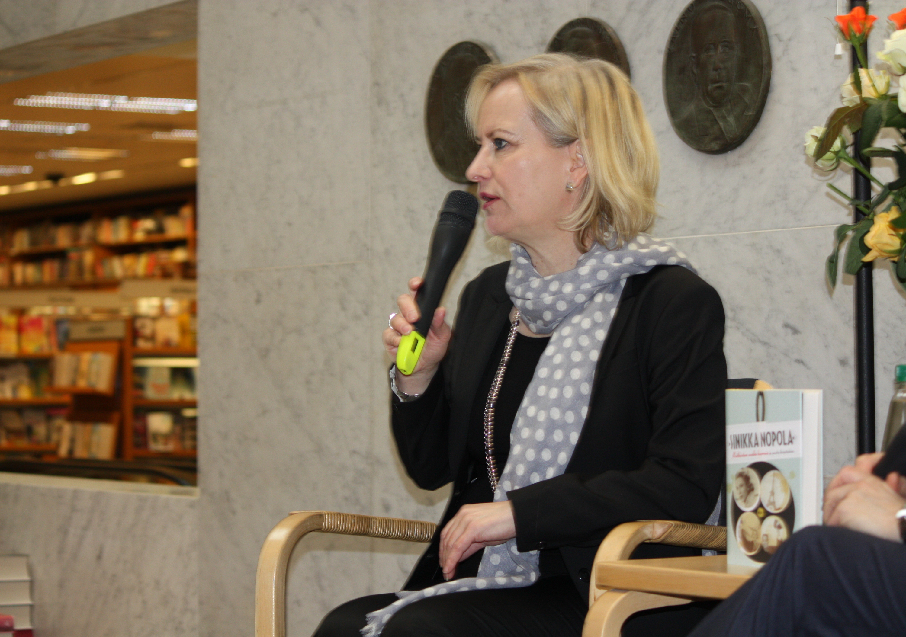 Finnish writer Sinikka Nopola on World Book Day in Helsinki in 2012